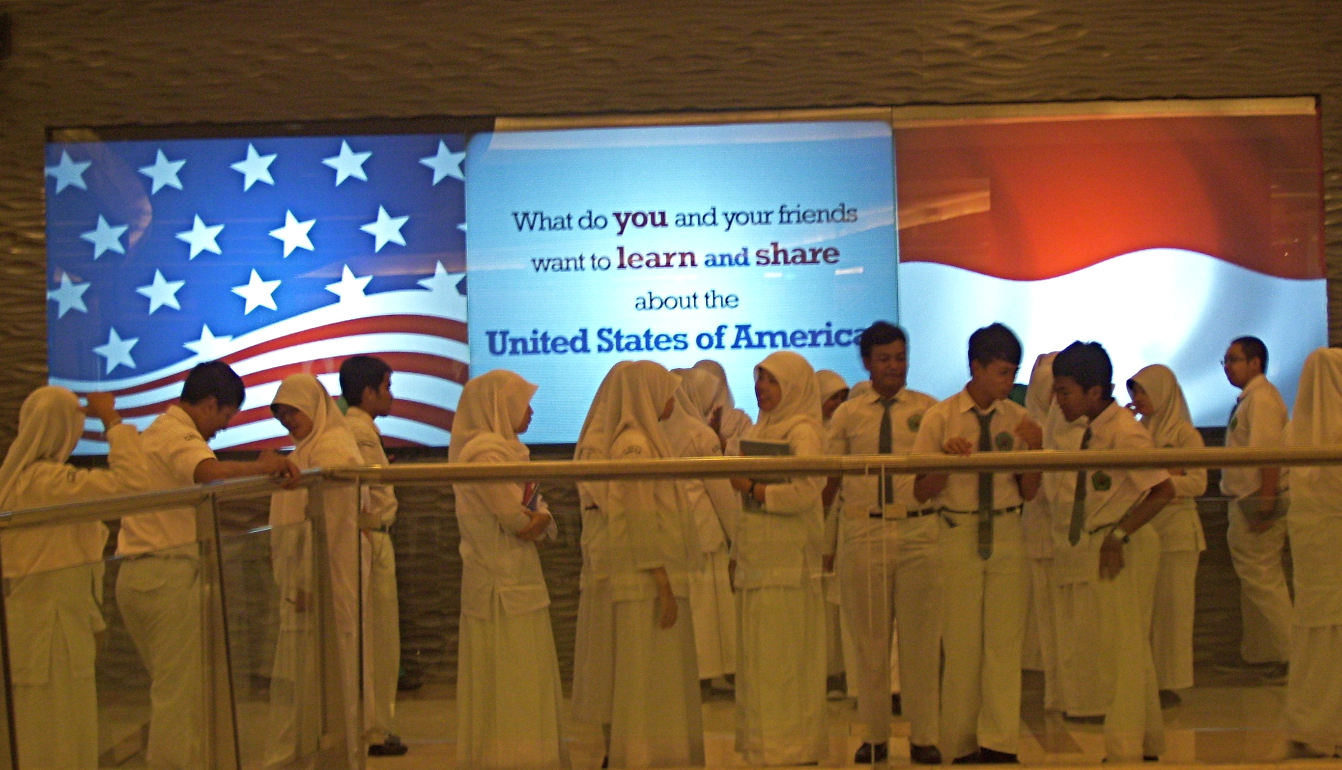 At America, Pasific Place, Jakarta. A U.S. Government idea of cultural center, flock with moslem student. A contrast view.